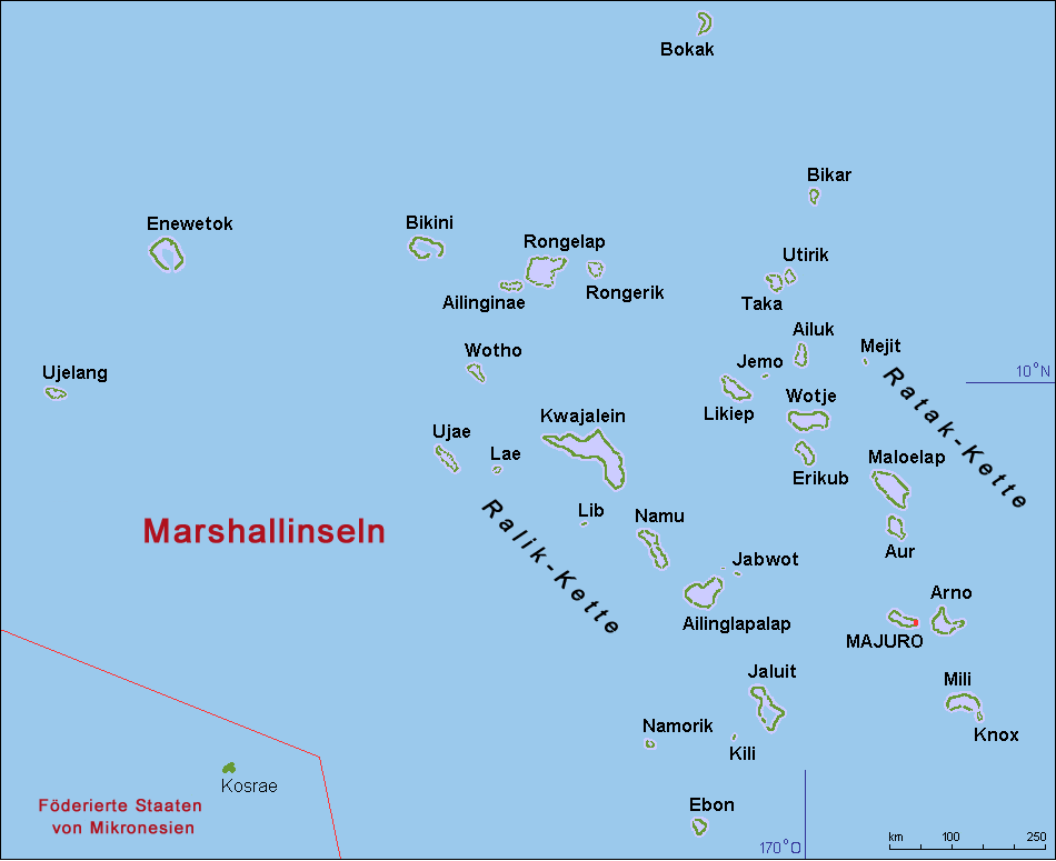 rough map of Marshall islands